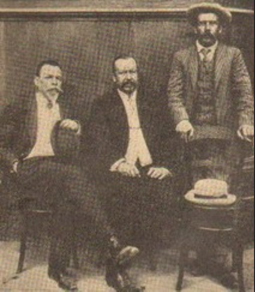 In the center - FP Stepanov, Moscow prosecutor's office of the Synod, on the left - the director of the Synodal Choir AD Castalian, right - the rector of the NM Danilin